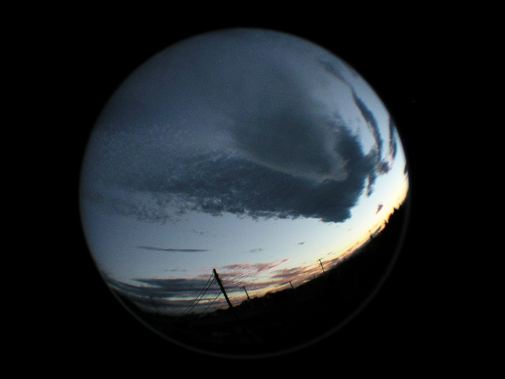 The example picture took using with circular fisheye lens.